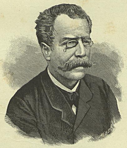 Henrique Augusto Dias de Carvalho (1843-1909), Portuguese explorer of Africa.